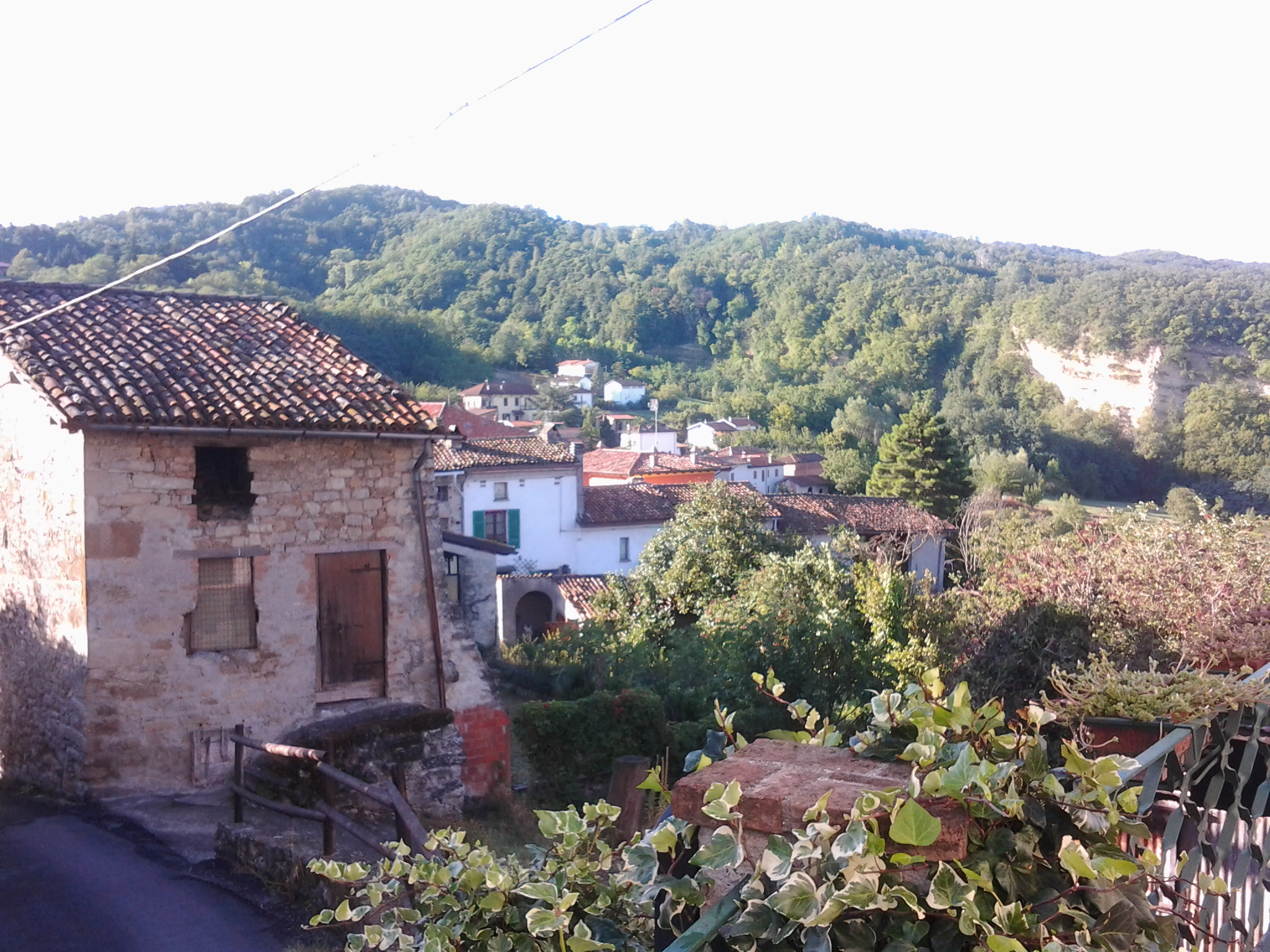 A view of Avolasca (AL), Italy